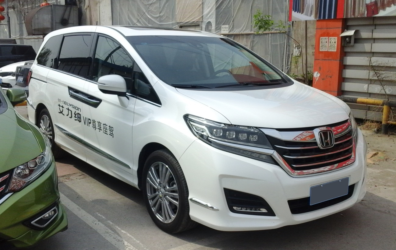 Honda Elysion II photographed in Beijing, China.